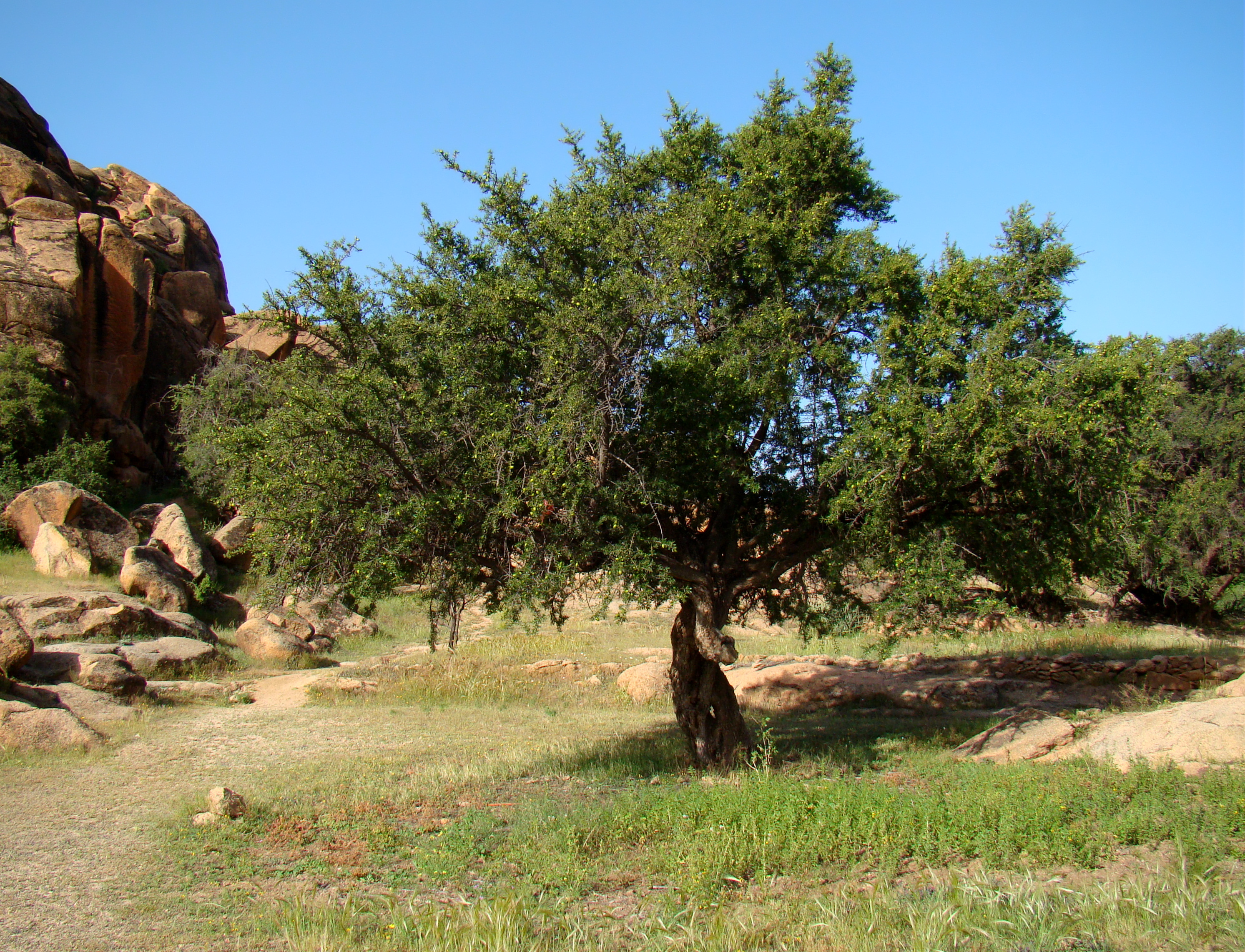 An argan tree in a valley near Tafraoute, near a rock carving of a gazelle, visible to the left of the tree.